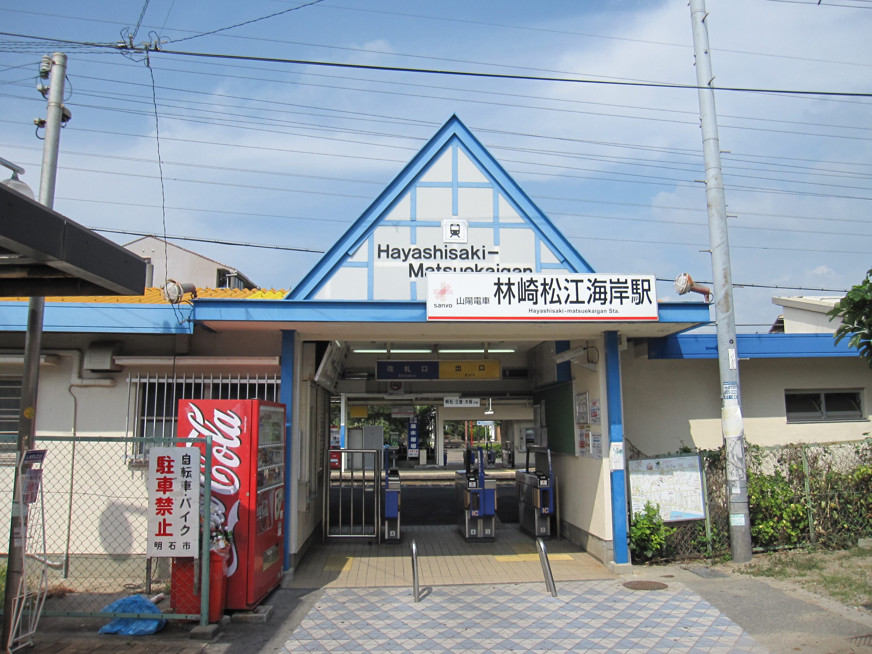 Hayashisaki-Matsuekaigan Station south side